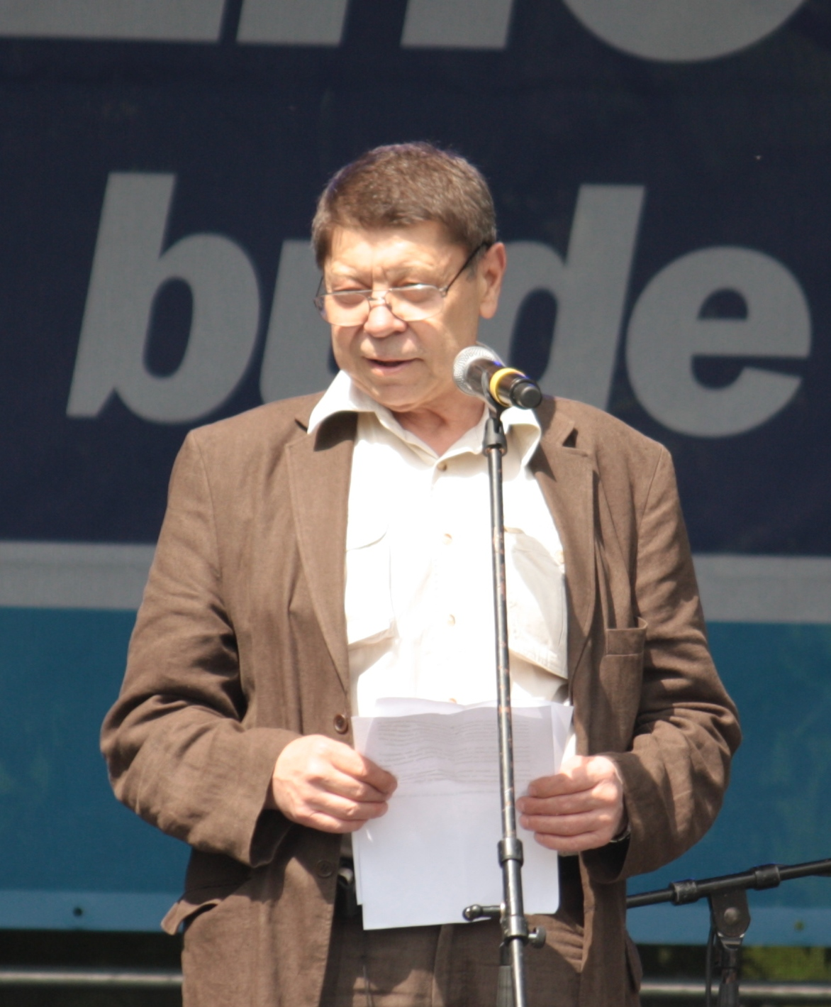 Martin Štěpánek during ODS election campaign meeting with Czech voters on Prague island Kampa